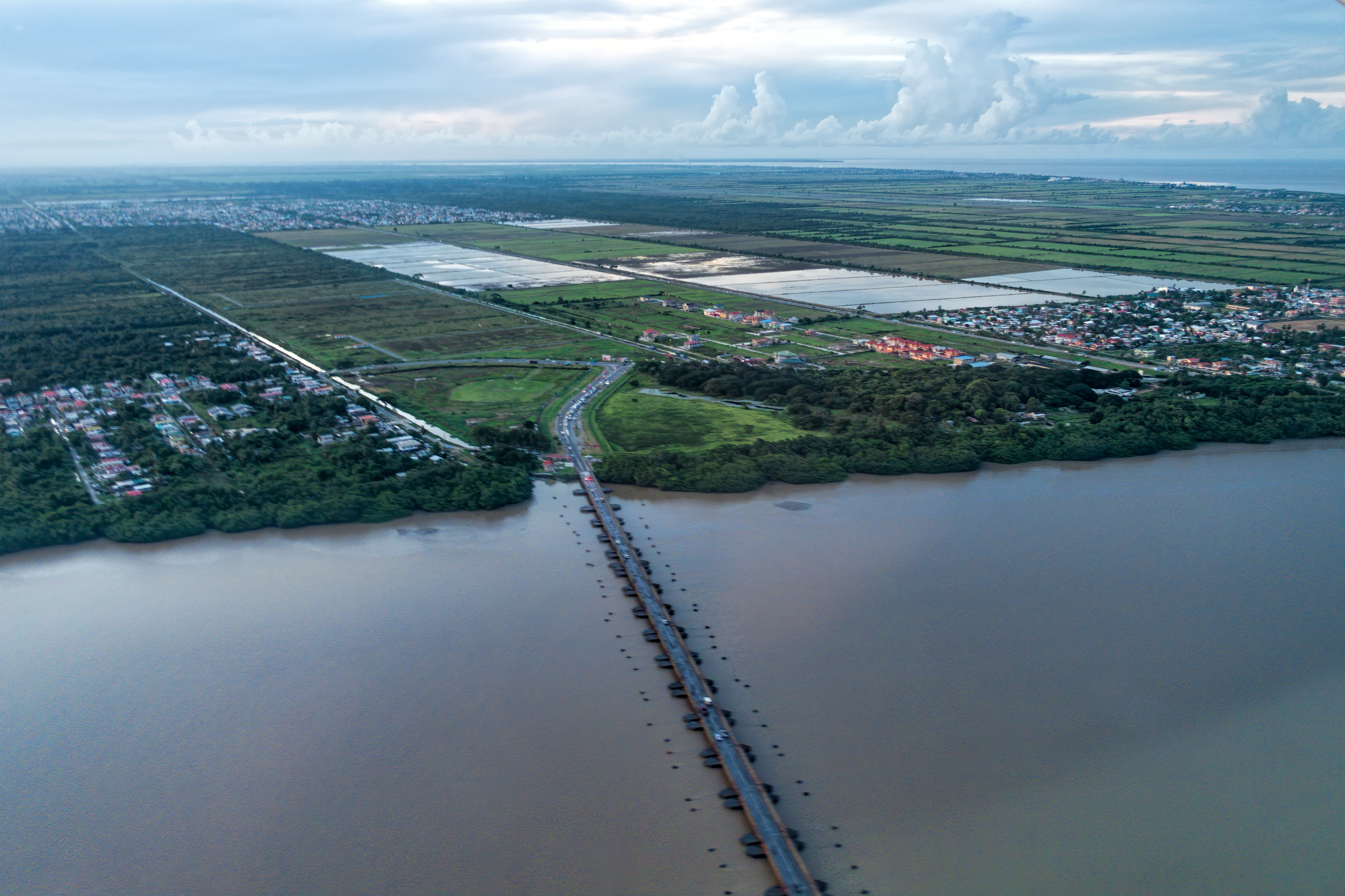 We fly over the Demerara Harbour Bridge. The Demerara Harbour Bridge was the world’s longest (1.25 miles/2.01 km) floating bridge when it opened in 1978. (Today it is fourth longest, albeit still the longest all-steel one.) Funded by the British Government and designed, manufactured, and installed by the Thomas Storey company of Stockport, England, the bridge crosses the Demerara River about three miles south of Georgetown, the capital of Guyana. The 61 spans are supported by 114 pontoons.